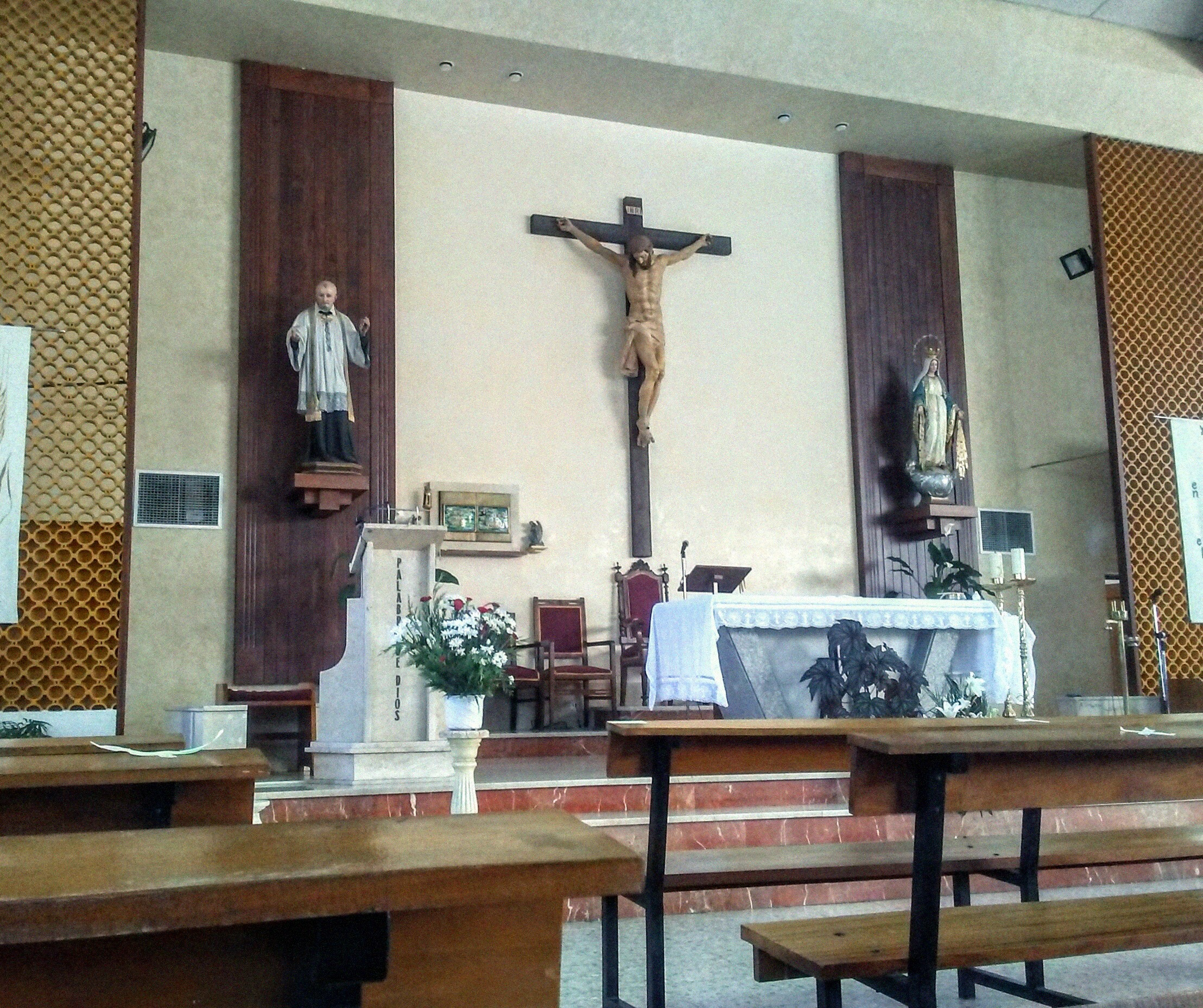 Parroquia de la Milagrosa (Ourense)